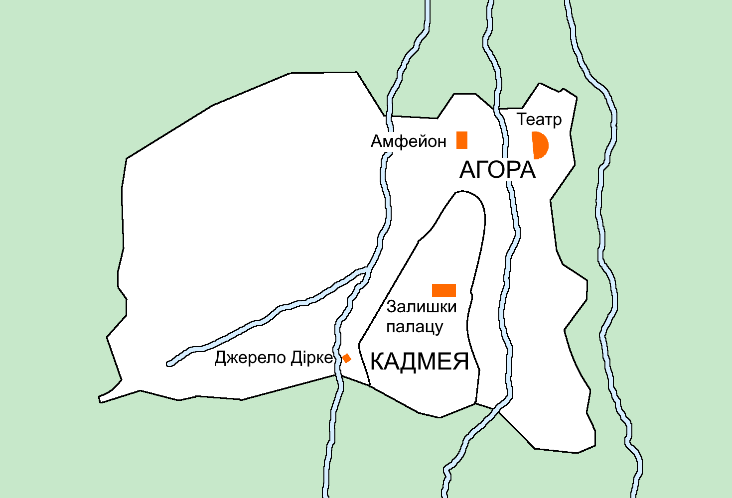 Map of Thebes in the Classical Time (early IV cent. BC)